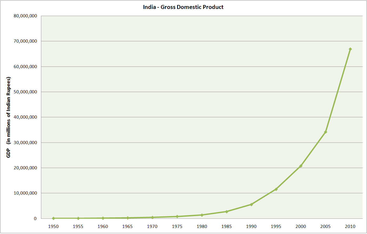 This chart is the representation of the data given in the page Economic history of India.